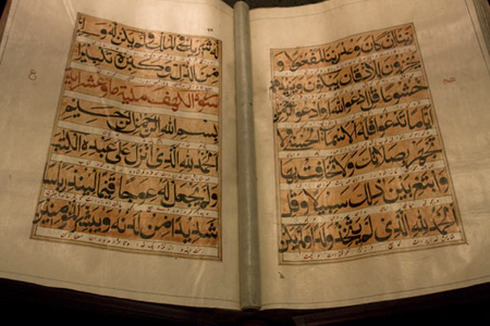 biggest Quran book - written in 18th century in India